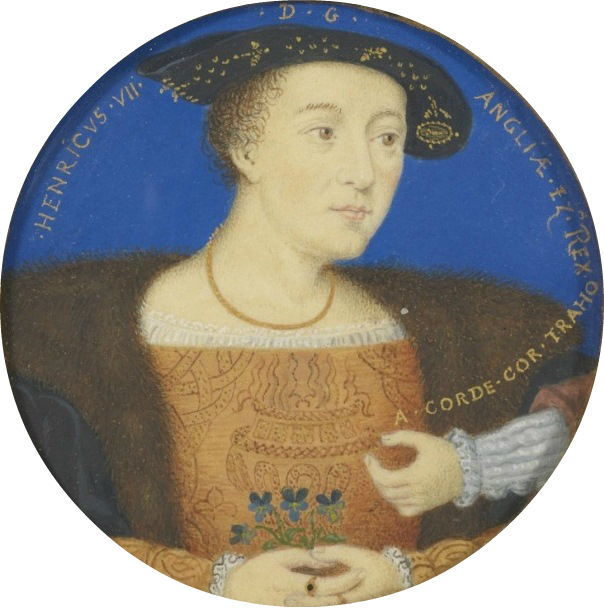 A portrait of Arthur Tudor by George Perfect Harding.